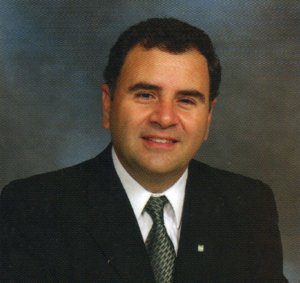 Pablo de León